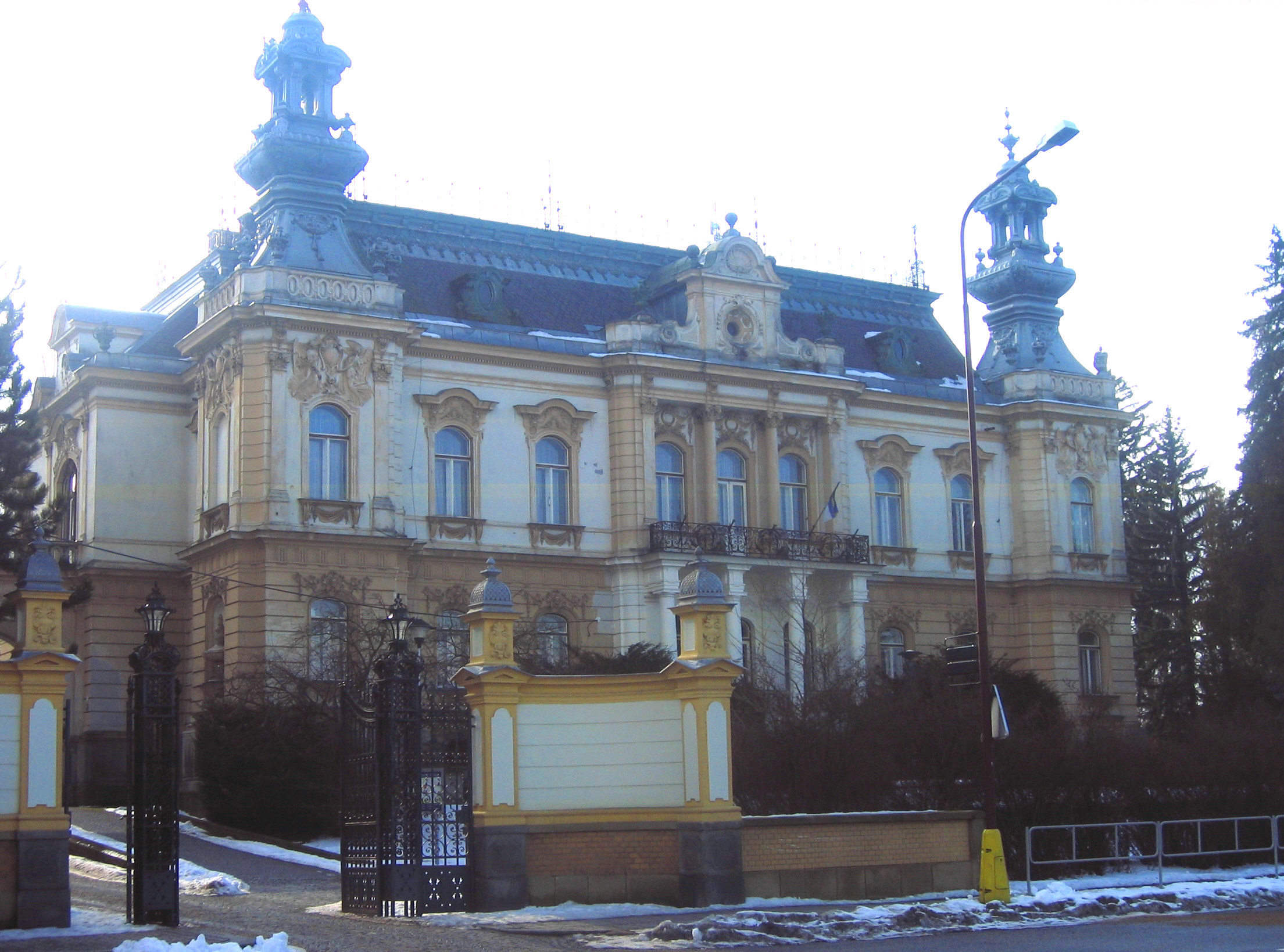 Langer's Villa in Svitavy (Czech Republic), built in style of Art Nouveau, at present the seat of municipal authorities